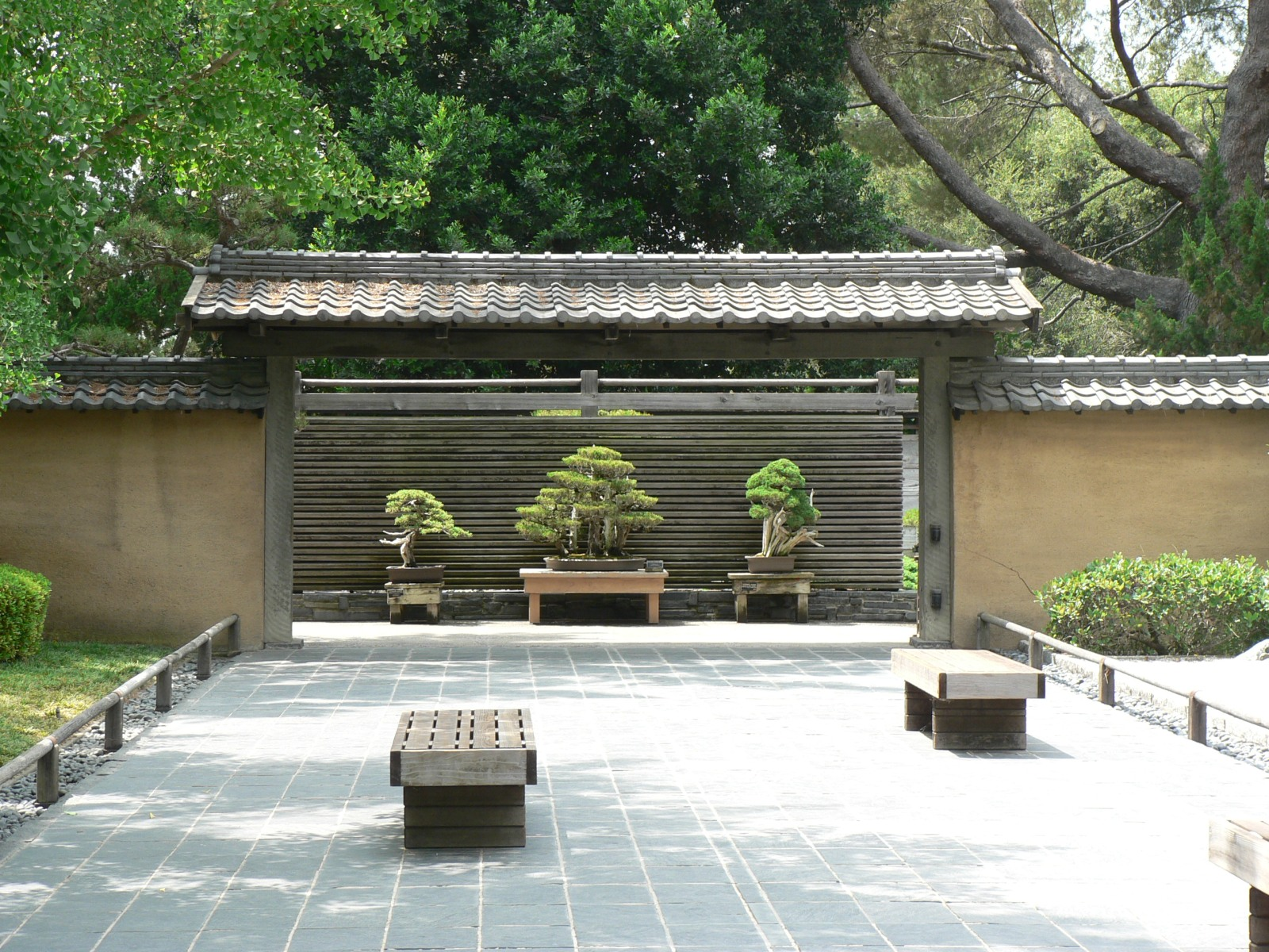 Entrance to Bonsai Garden, as viewed from the Zen Garden, at the Huntington Library